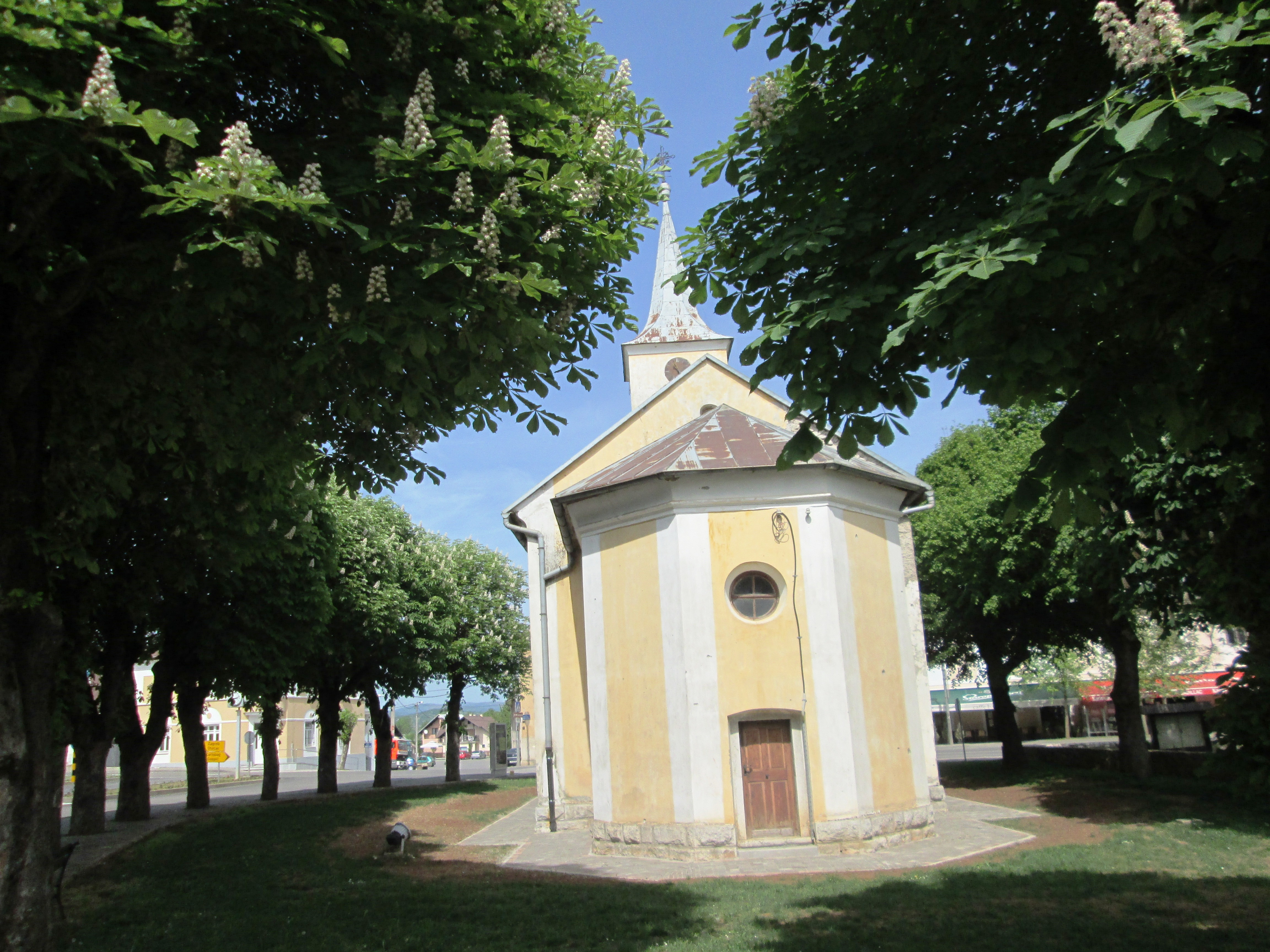 Chapel of Saint Rochus in Perusic, Croatia